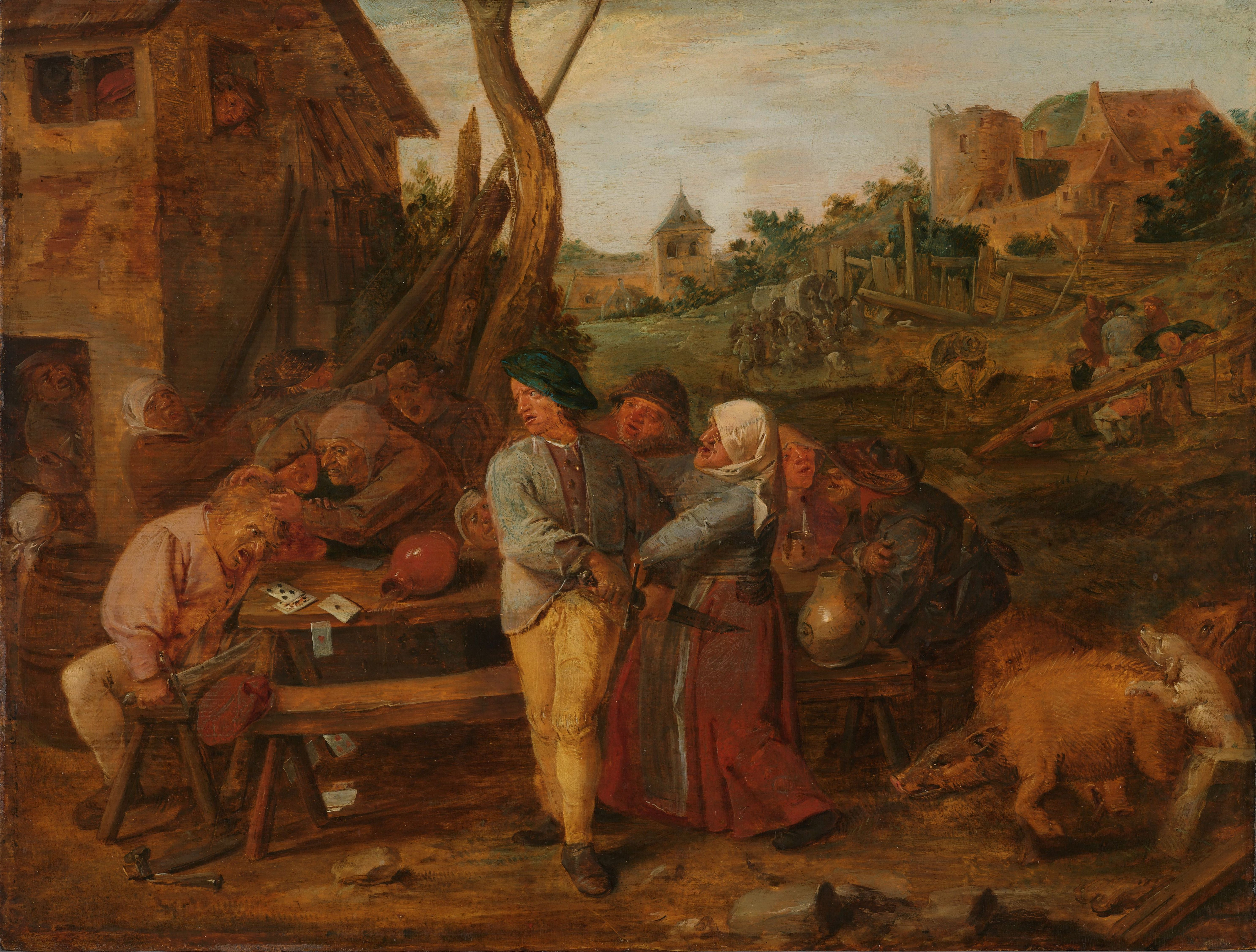 A fight between drunken peasants playing cards around a table outside an inn. Two peasants are drawing their swords. Women are trying to stop them. To the right a pig in the mud.